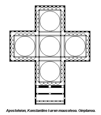 Floor plan of the former Church of the Holy Apostles in Constantinople (Mausoleum of Emperor Constantine I).